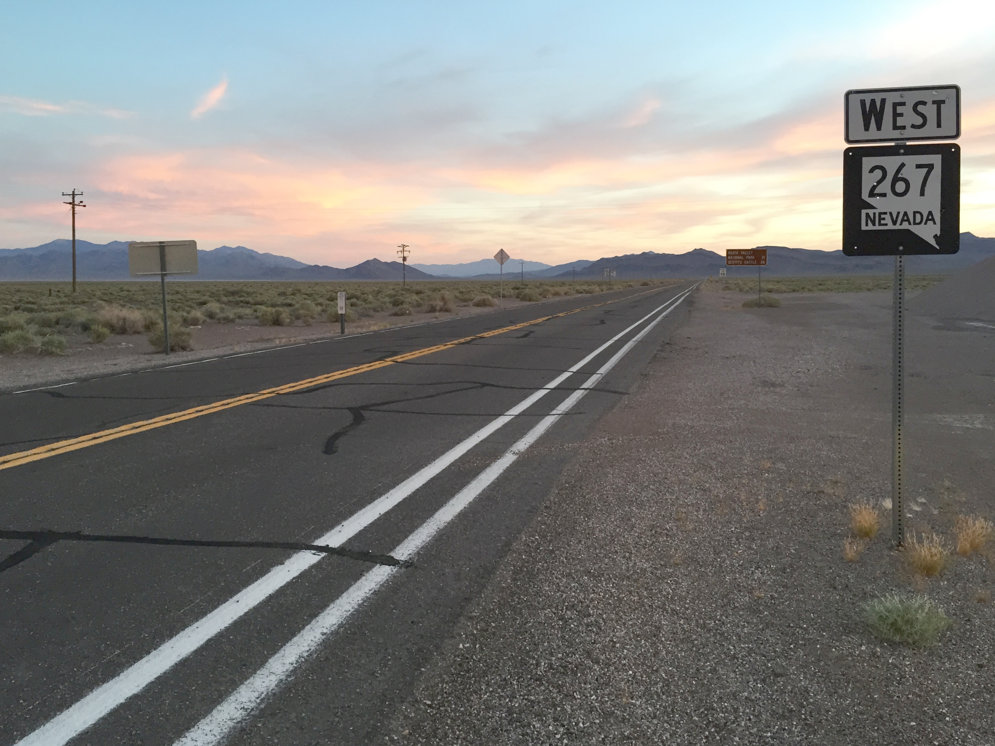 View west from the east end of Nevada State Route 267 (Scotty's Castle Road) in Scotty's Junction, Nevada